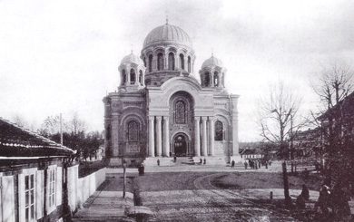 Собор апостолов Петра и Павла, ныне католический собор Михаила Архангела.